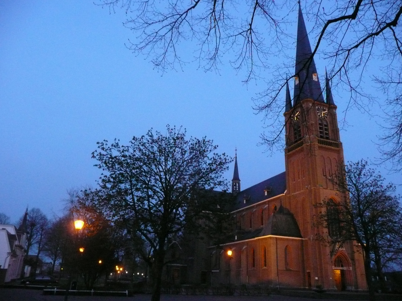 The church of Wanroij, The Netherlands